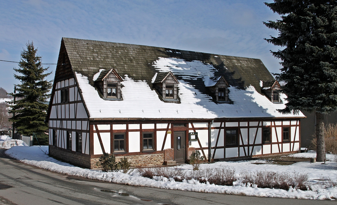 Bad Schlema: depot house of the lower part of the "Marx-Semler-Stolln" (also known as "Markus-Semmler-Stolln"), the most important system of adits used for dewatering the mines in the Schlema and Schneeberg mining region; cultural heritage monument.